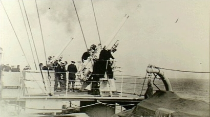 AWM caption : "Australia, 1932. Gun crews of the RAN heavy cruiser HMAS Canberra practising high altitude firing in Australian waters with the ship's 4-inch anti-aircraft guns. These guns were later replaced with twin 4-inch high altitude guns that were fitted with gun shields." Comment : The guns are QF 4 inch Mk V.